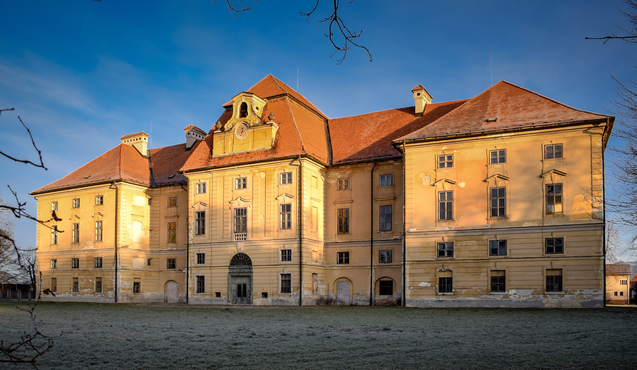 Dvorec_Novo_Celje This media shows a cultural heritage object of Slovenia with the EŠD number: 491